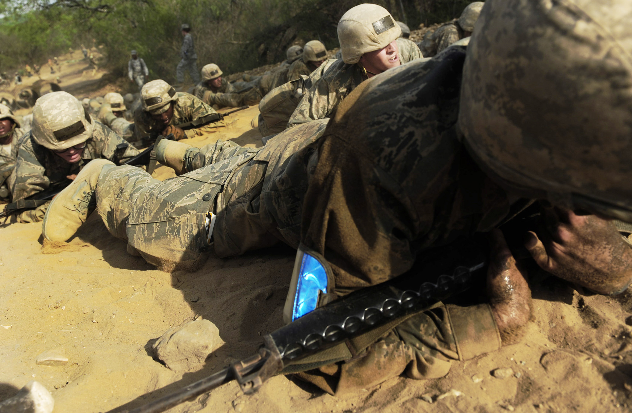 Basic trainees low craw through a tactical course at the Basic Expeditionary Airman Training course, BEAST, Sept. 2 at Lackland Air Force Base. The BEAST introduces Airmen to the joint expeditionary concept and immerses them in to deployment scenarios.